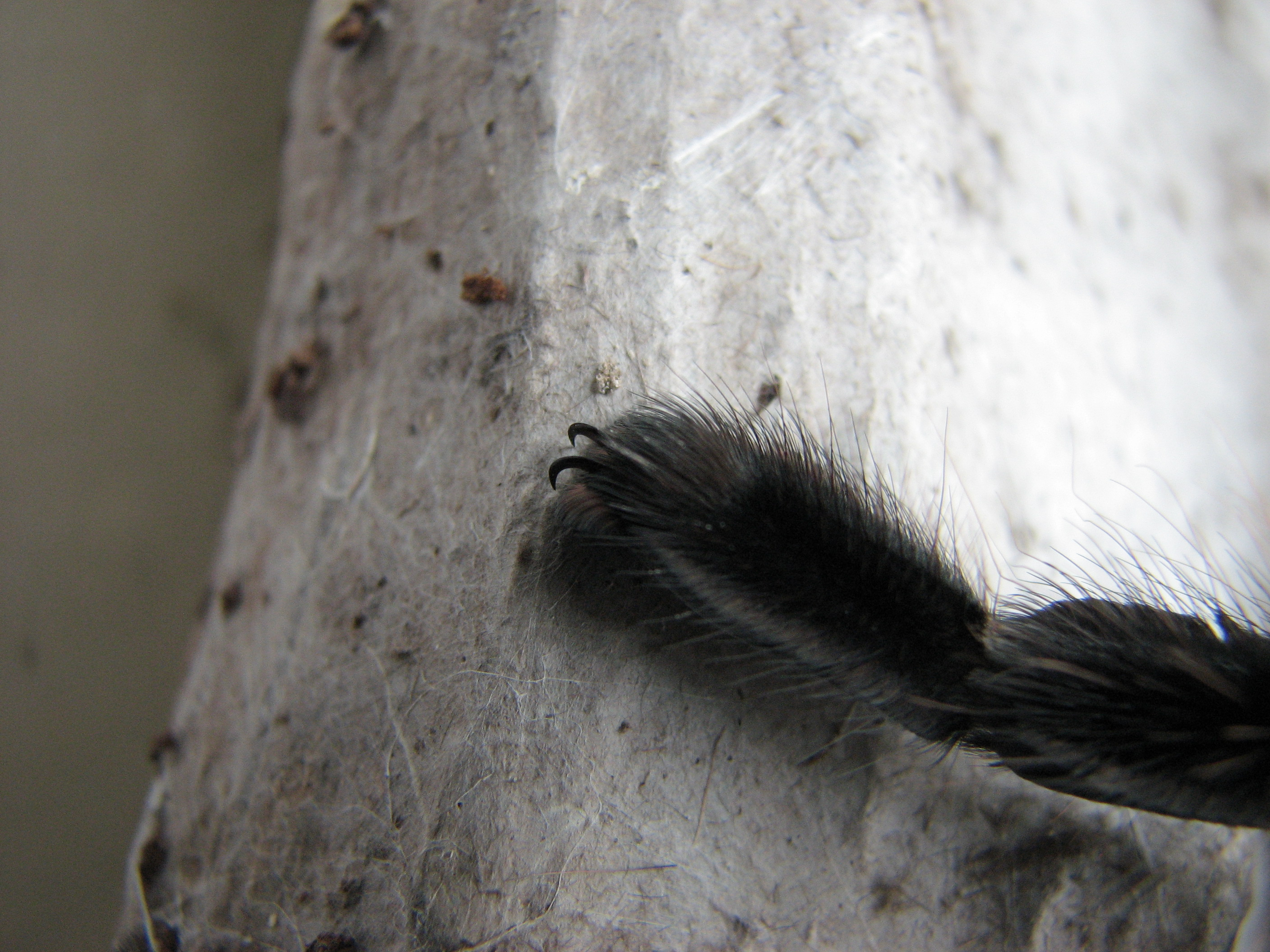 Claws at the end of the leg of an adult Lasiodora parahybana. These are at the end of the second leg on her left side.